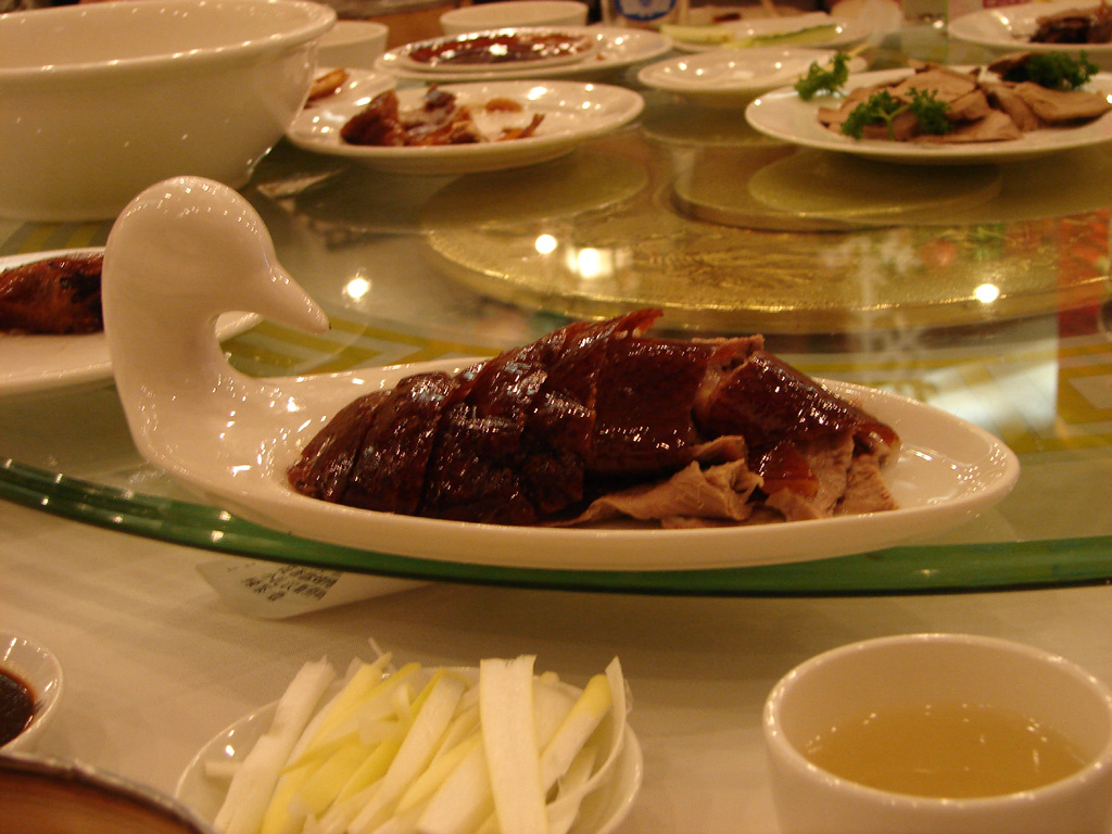 Peking Roast Duck